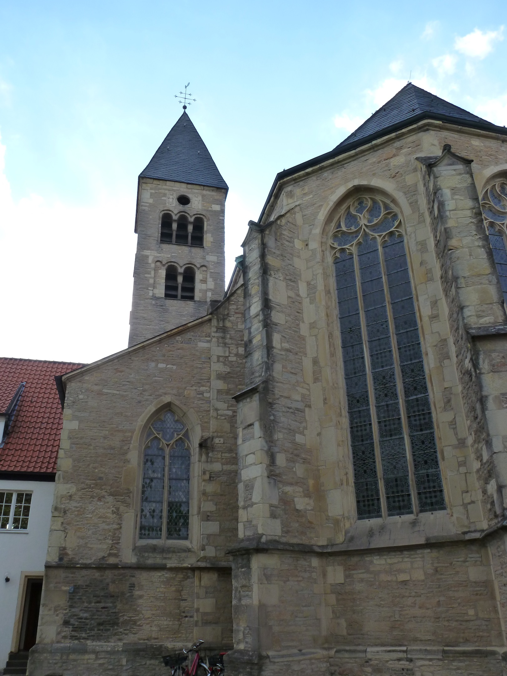 Südlicher Ostturm